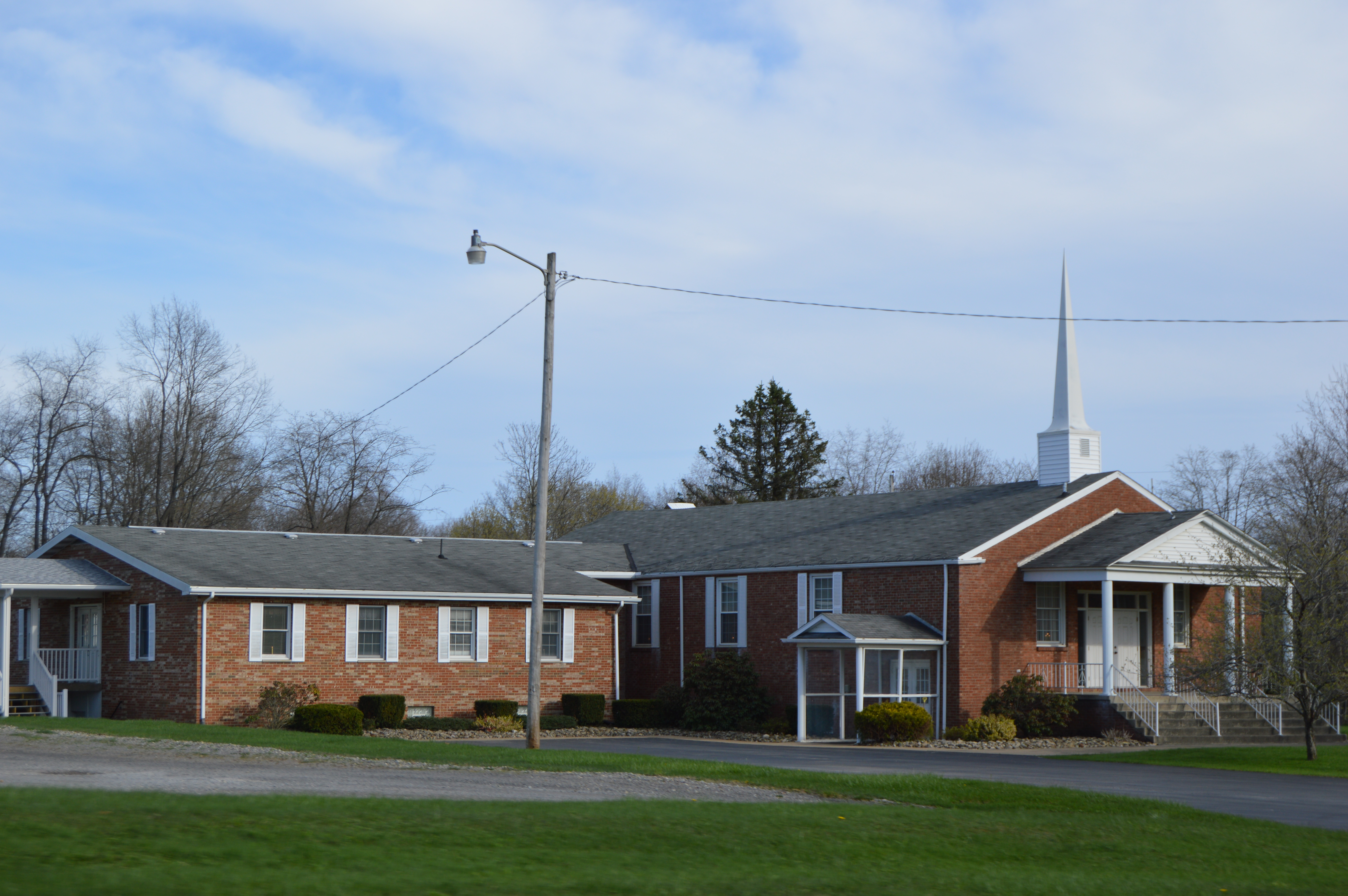 Northern side and front of the Calvary Orthodox Presbyterian Church, located at 443 N. Main Street (Pennsylvania Route 8) in northern Harrisville, Pennsylvania, United States. It was built in 1967.